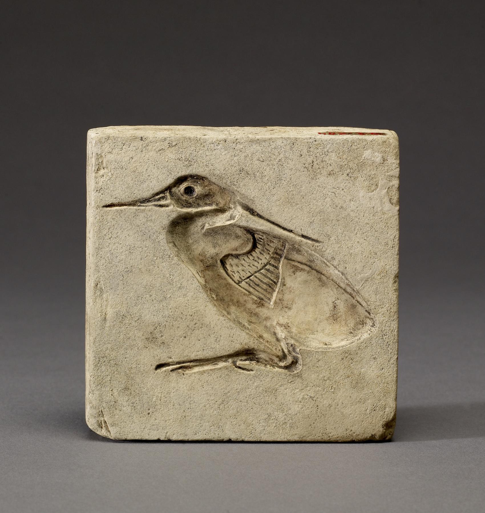 This mold depicts a heron, a bird associated with the sun, the annual flooding of the Nile, and the afterlife.